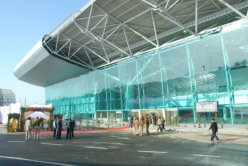 The entrance to the renovated Amritsar airport before its opening.